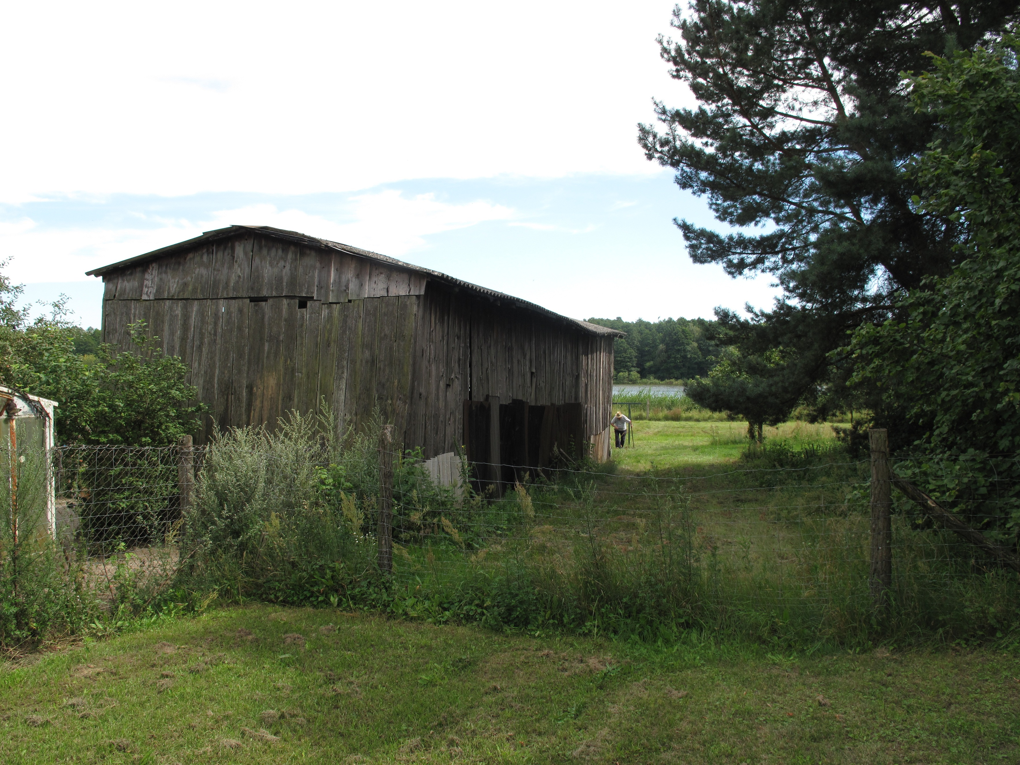 Barn in Karlsdorf. Karlsdorf is a part of Altfriedland, a village of the municipality Neuhardenberg in the District Märkisch-Oderland, Brandenburg, Germany. Karlsdorf was founded in 1774/75 as colonist village and named after Charles Frederick Albert, Margrave of Brandenburg-Schwedt, landlord in Friedland. The village is especially known for its fishing waters „Karlsdorfer Teiche“.